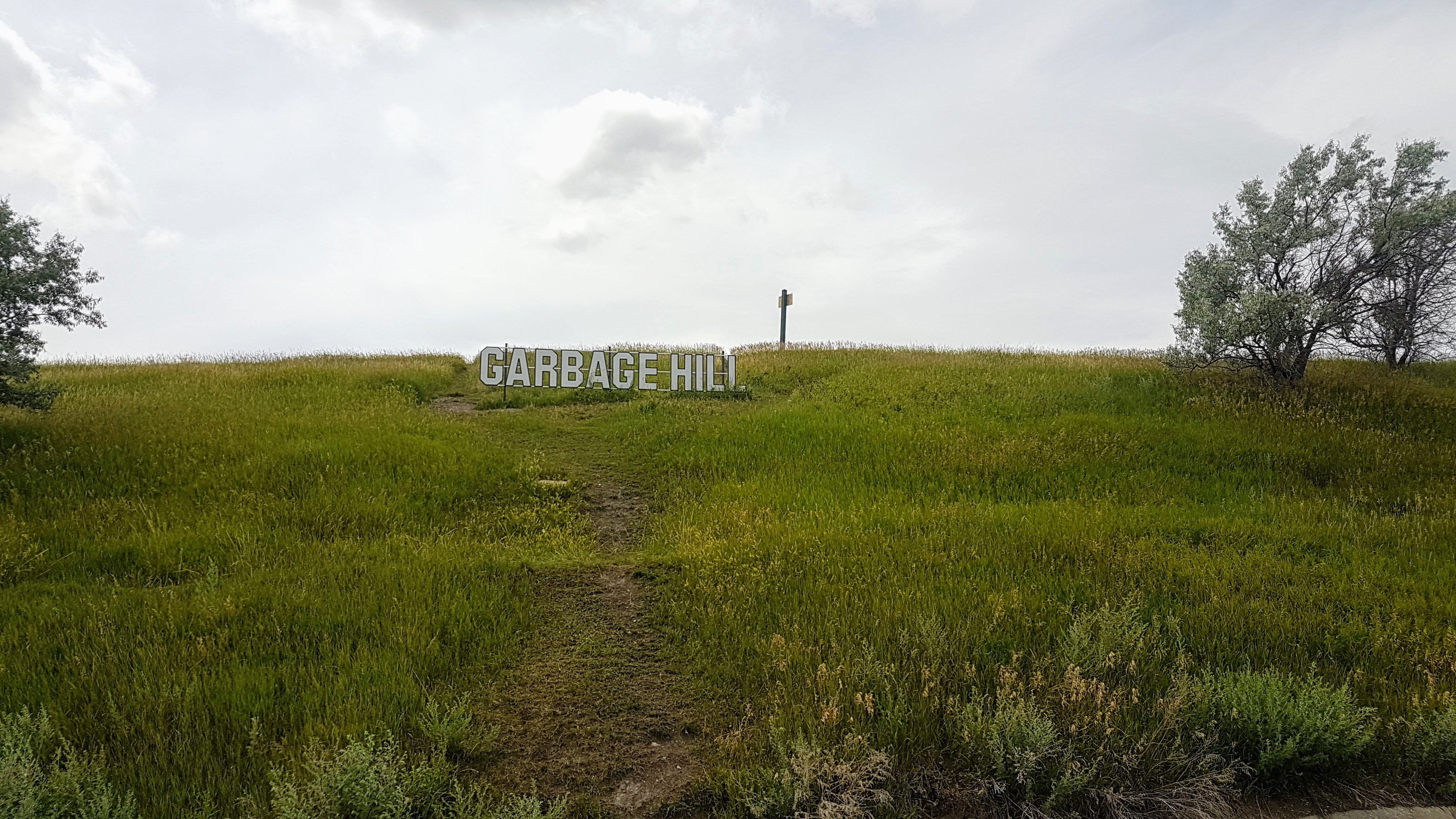 Garbage Hill sign on the side of the hill at Westview Park in Winnipeg Manitoba Canada